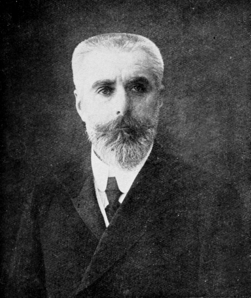 Ahmet Riza, an early leader (1894), first president of the Chamber of Deputies. Young Turk Revolution Manifestation of freedom of rights